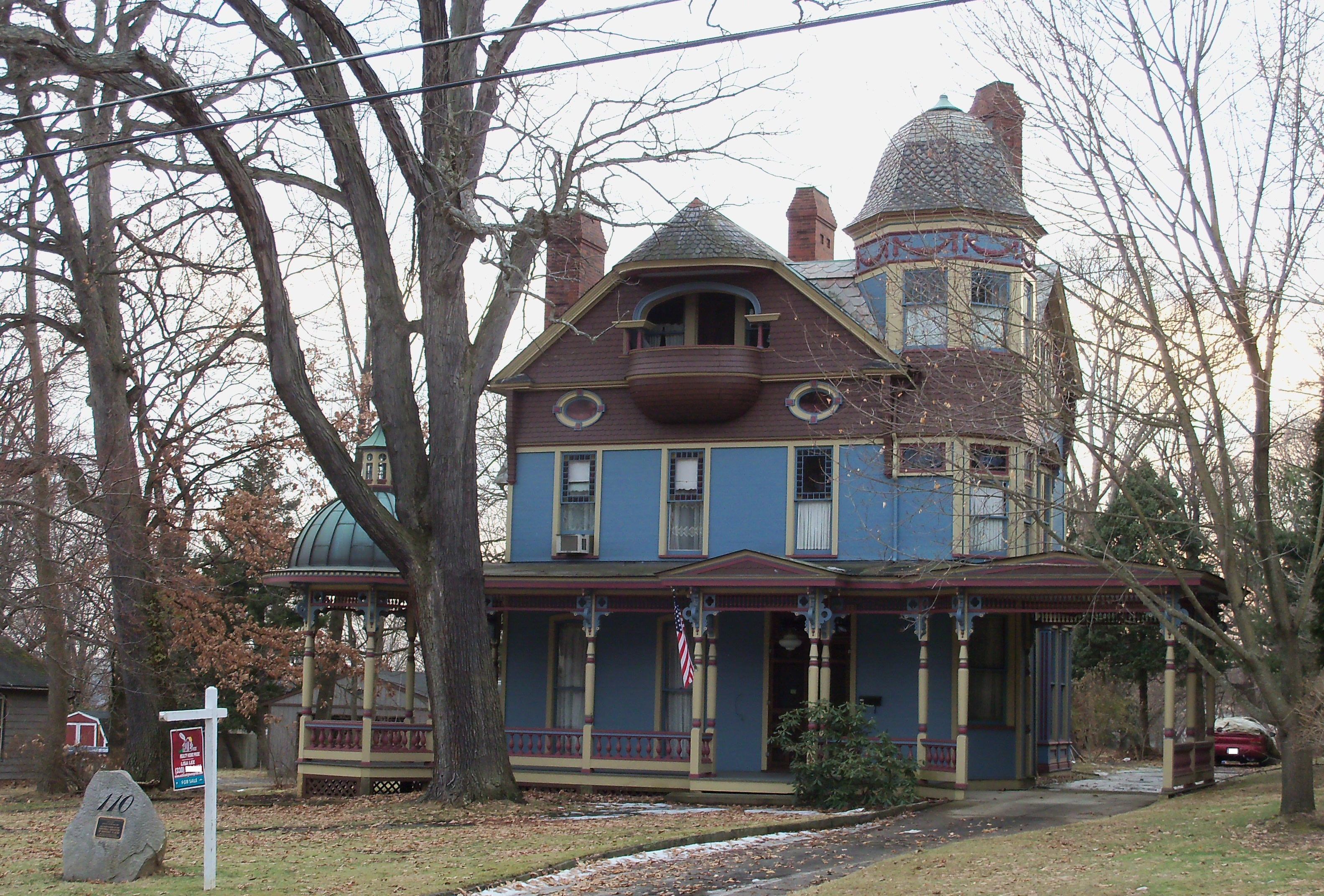 Charles Nelson Schmick House, a home on the National Register of Historic Places in Columbiana County, Ohio